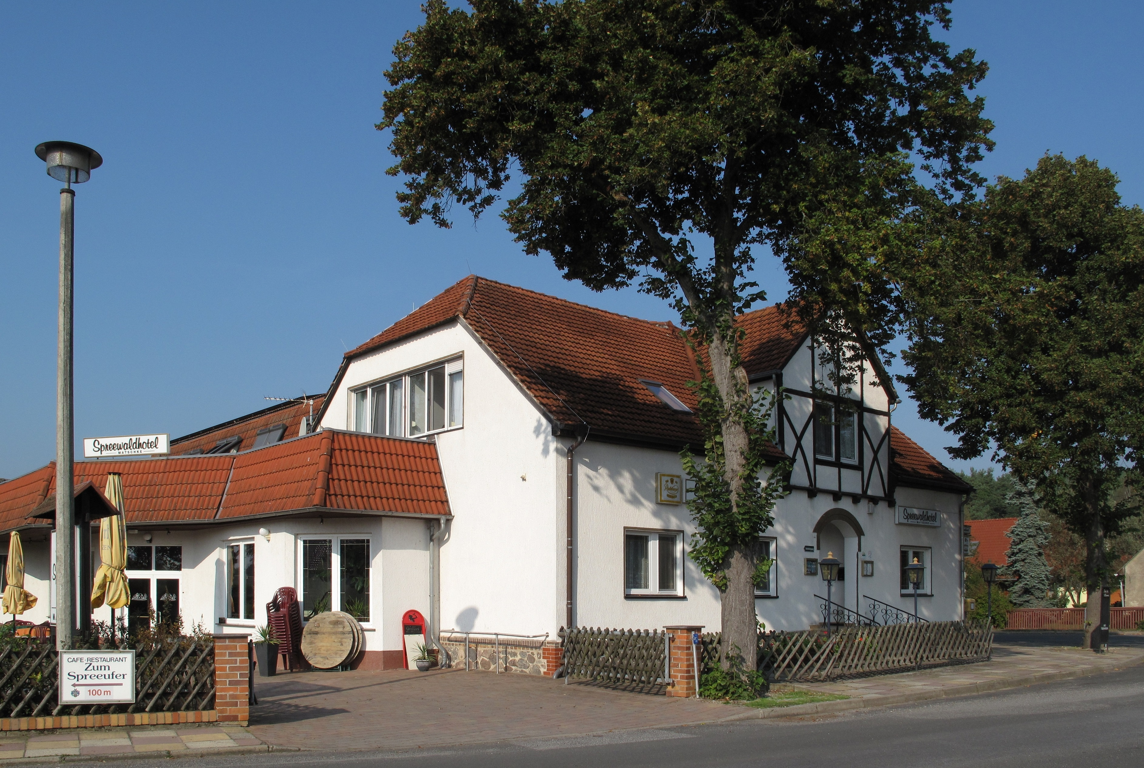 Spreewaldhotel in the village Werder, a part of the municipality Tauche in the District Oder-Spree, Brandenburg, Germany.